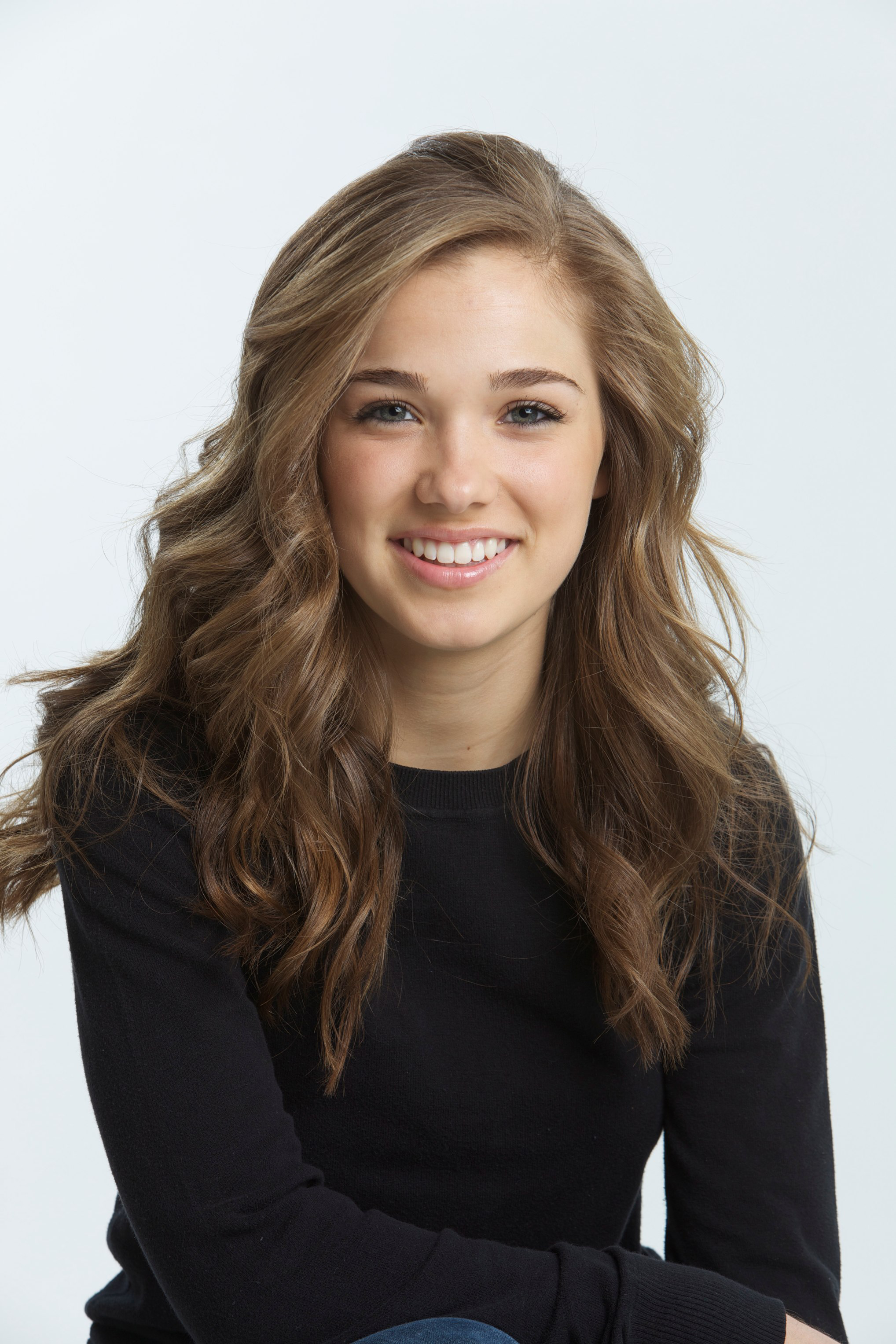 Portrait photo of Haley Lu Richardson, American actress